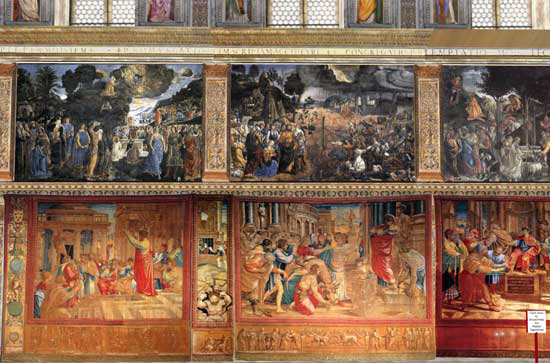 Rapahel tapestry Tapestry Musei Vaticani, Rome